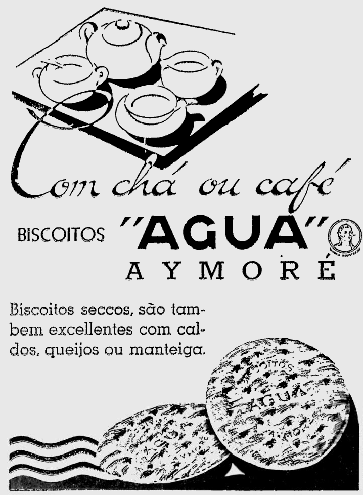 Ad of Biscoitos Aymoré.